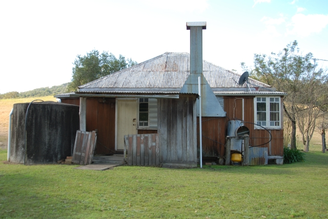 Homewood, Bellbrook